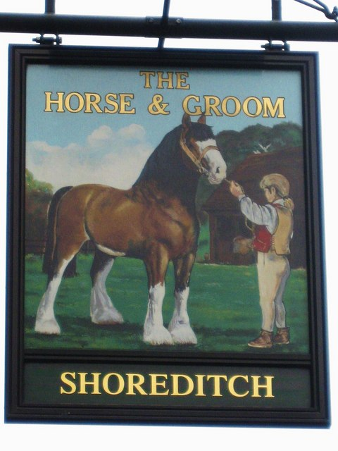 Sign for The Horse & Groom, Curtain Road, EC2 See 1097657.